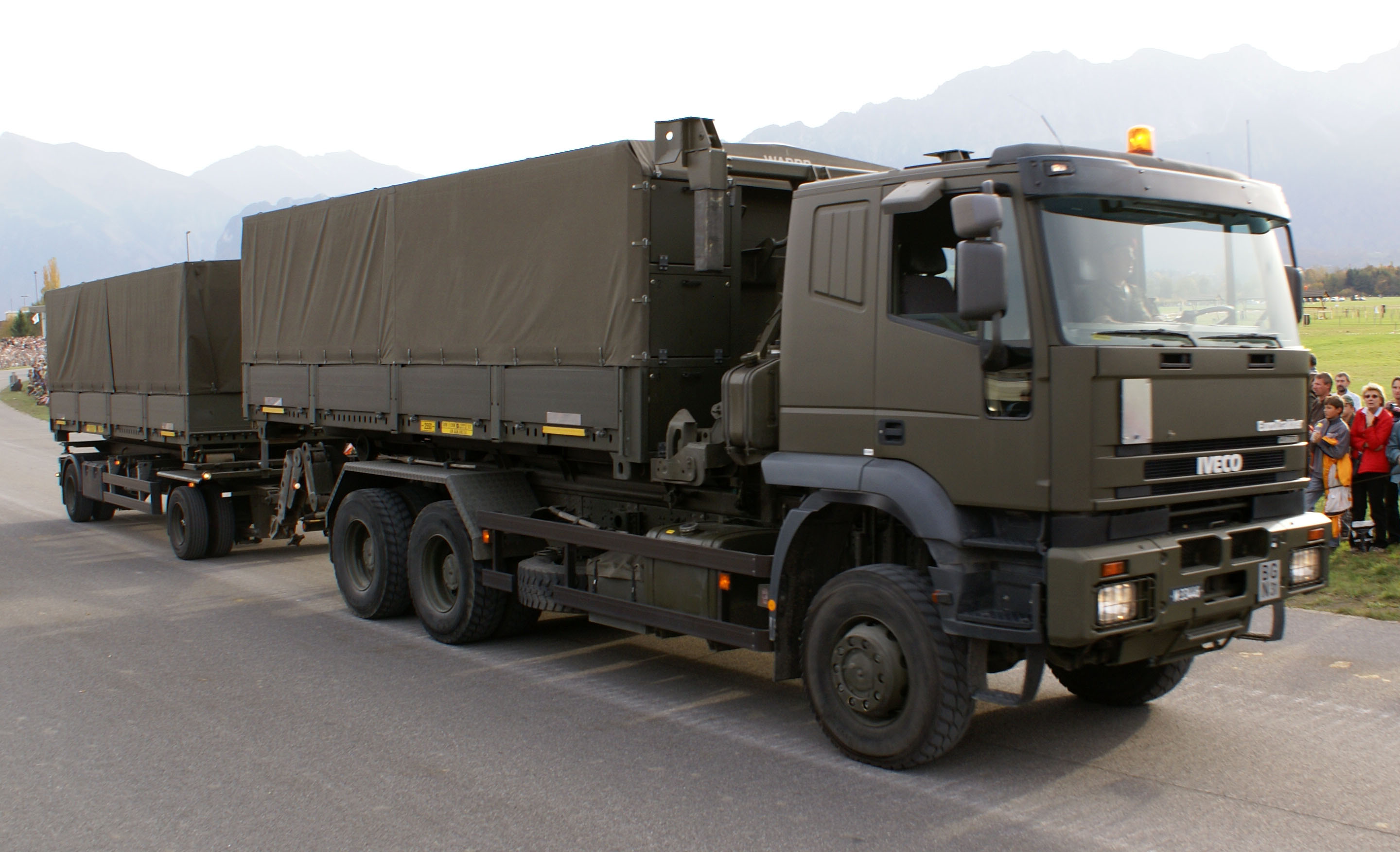 Swiss Army. IVECO transport truck. Participating in the "Steel Parade" of the 2006 Army Days, Thun.